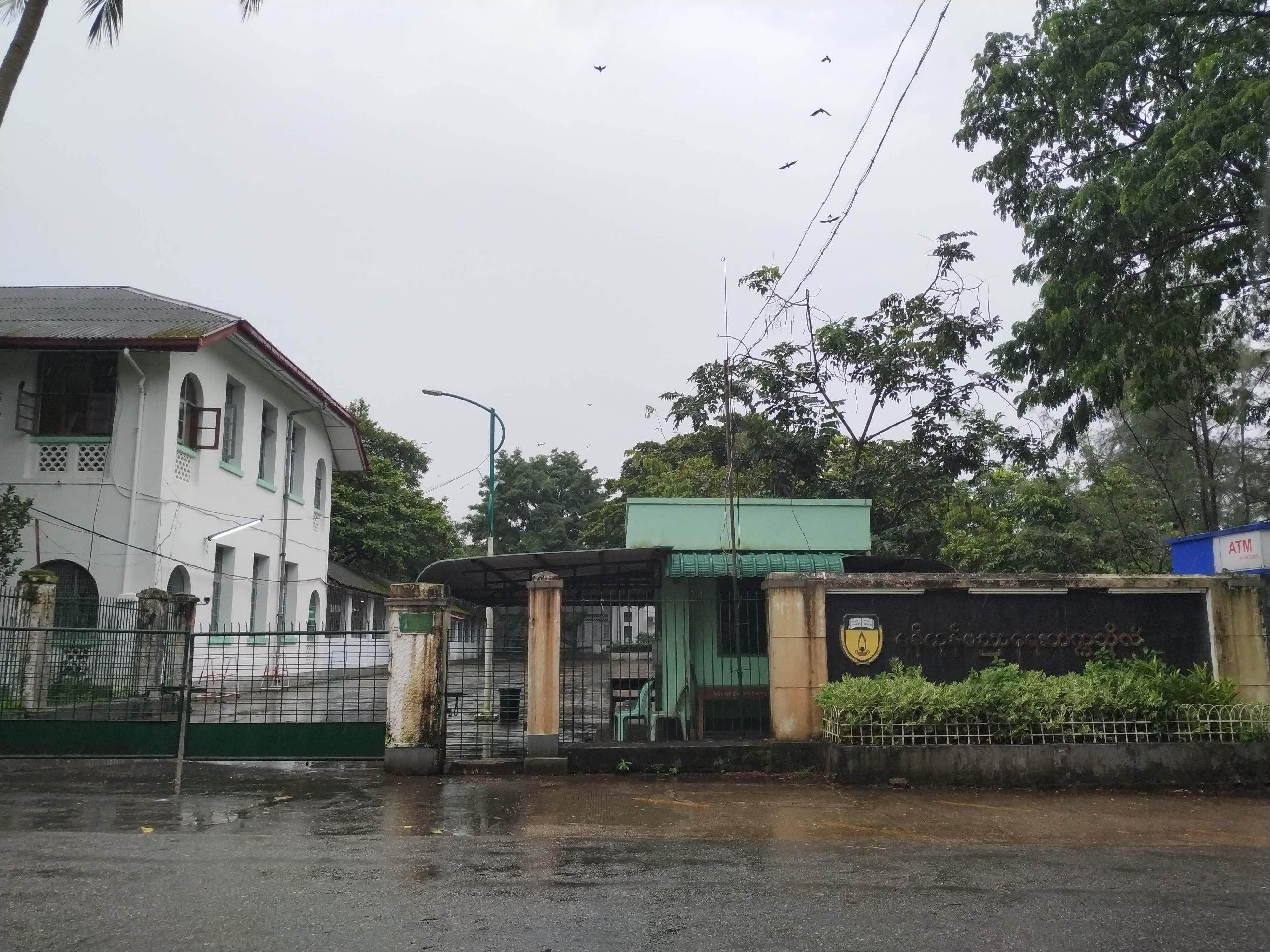 Yangon University of Education မြန်မာဘာသာ: ရန်ကုန်ပညာရေးတက္ကသိုလ်